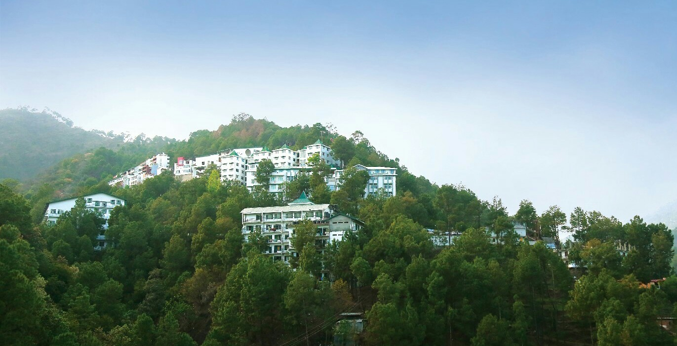 Shoolini University